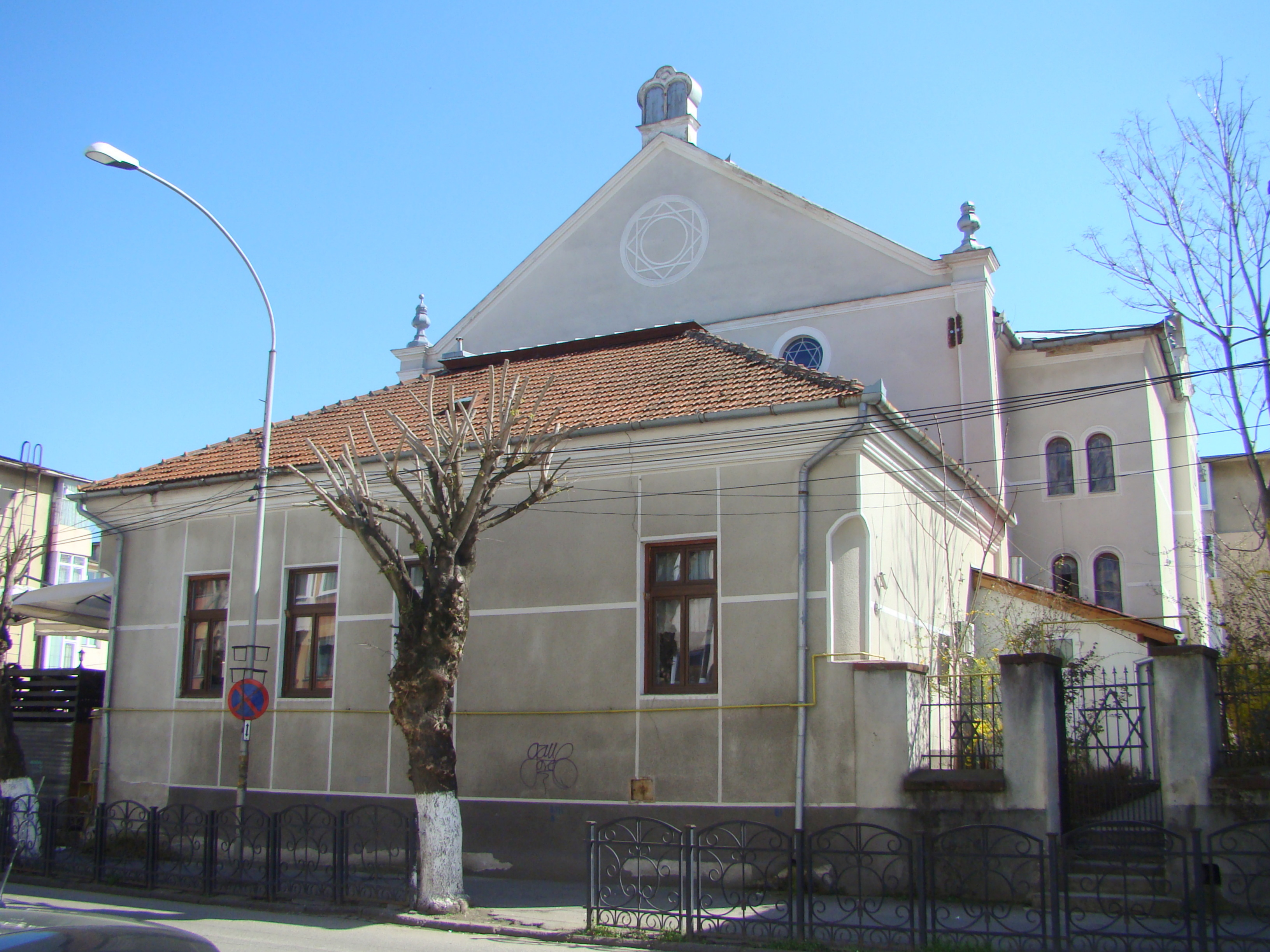 Deva synagogue, Hunedoara county, Romania